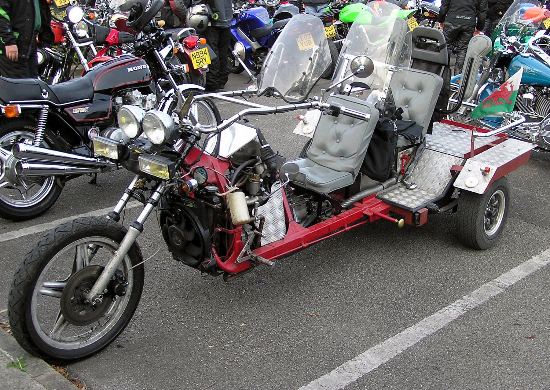 A trike motorcycle seen at Aust Motorway Services, Bristol, England. Photographed by Adrian Pingstone in October 2005 and placed in the public domain.